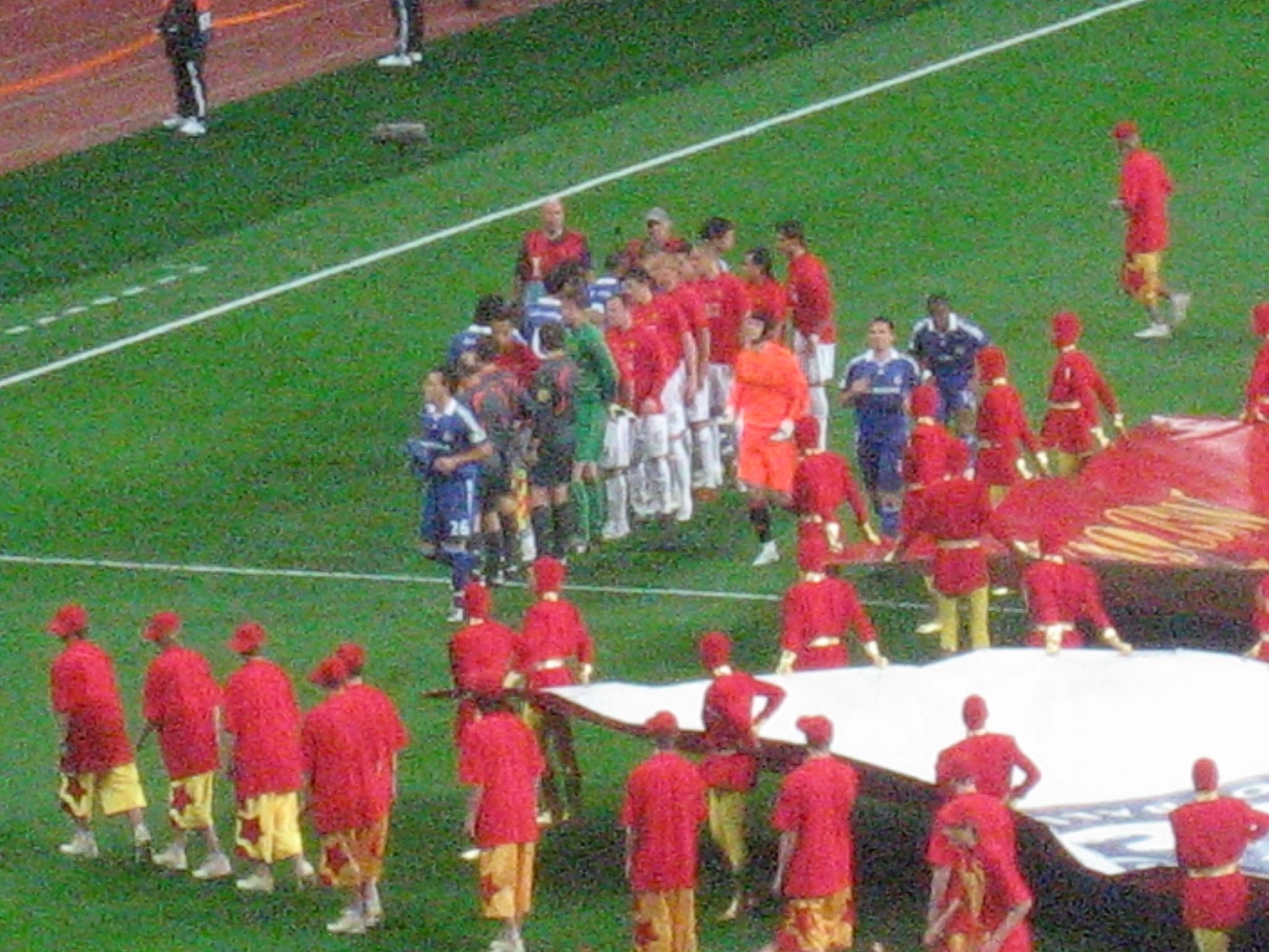 Manchester United and Chelsea players shake hands ahead of the 2008 UEFA Champions League Final